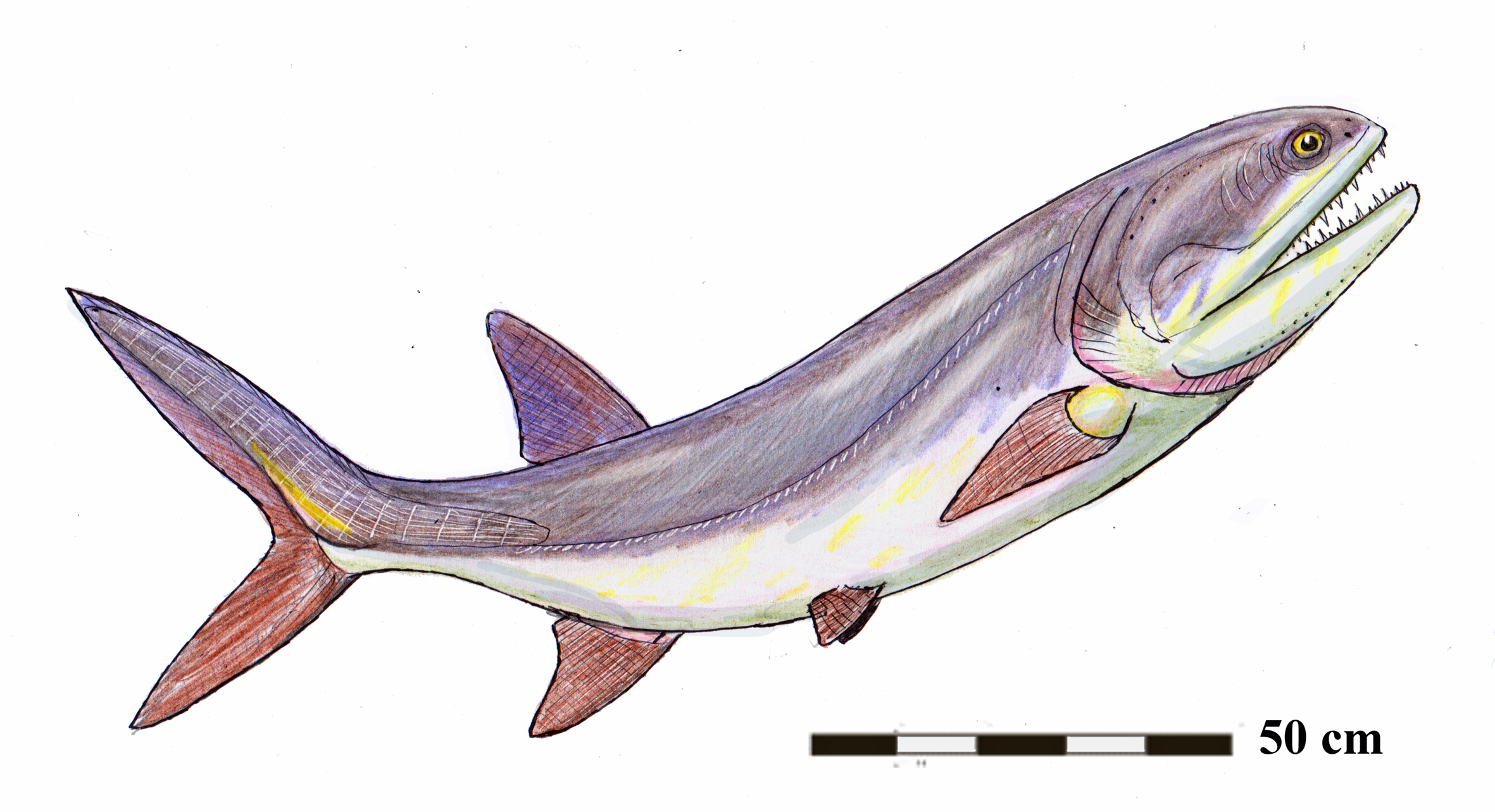 Birgeria , Triassic chondrostean fish